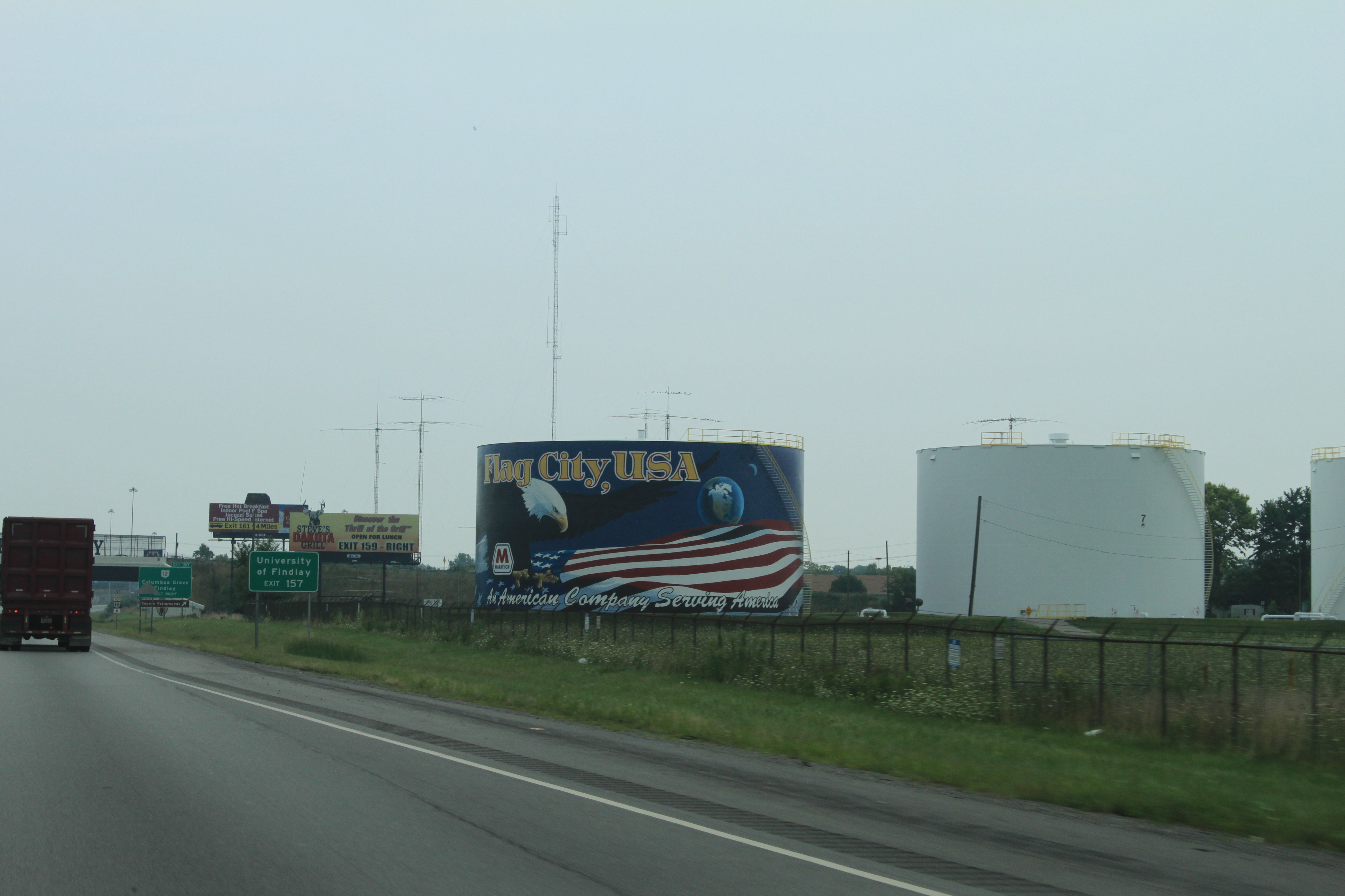 Marathon Oil Company refinery storage tank, Findlay, Ohio